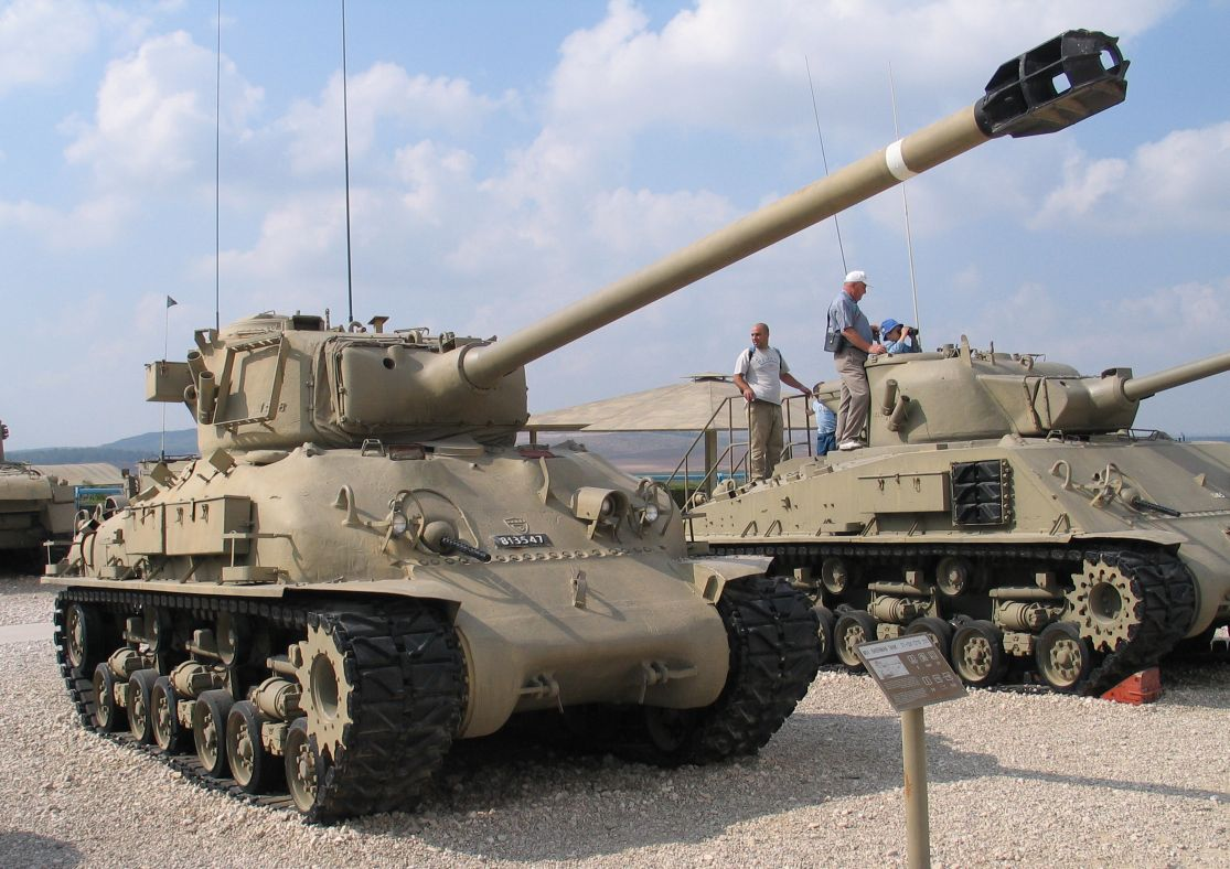 Description: Sherman M-51 (Isherman) in Yad la-Shiryon Museum, Israel. 2005. Source: Photo by me, User:Bukvoed.